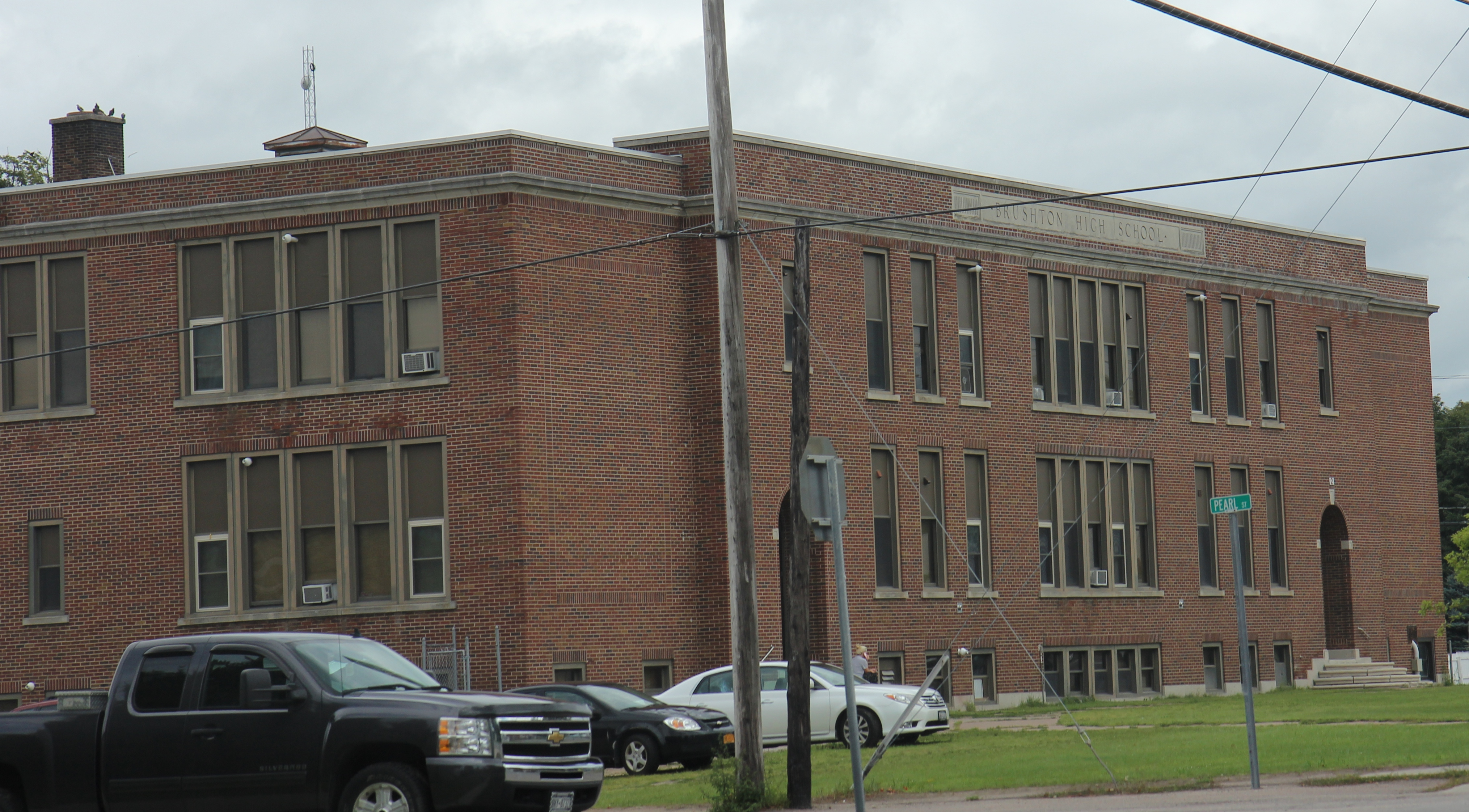 Brushton High School in Brushton, NY along US11.